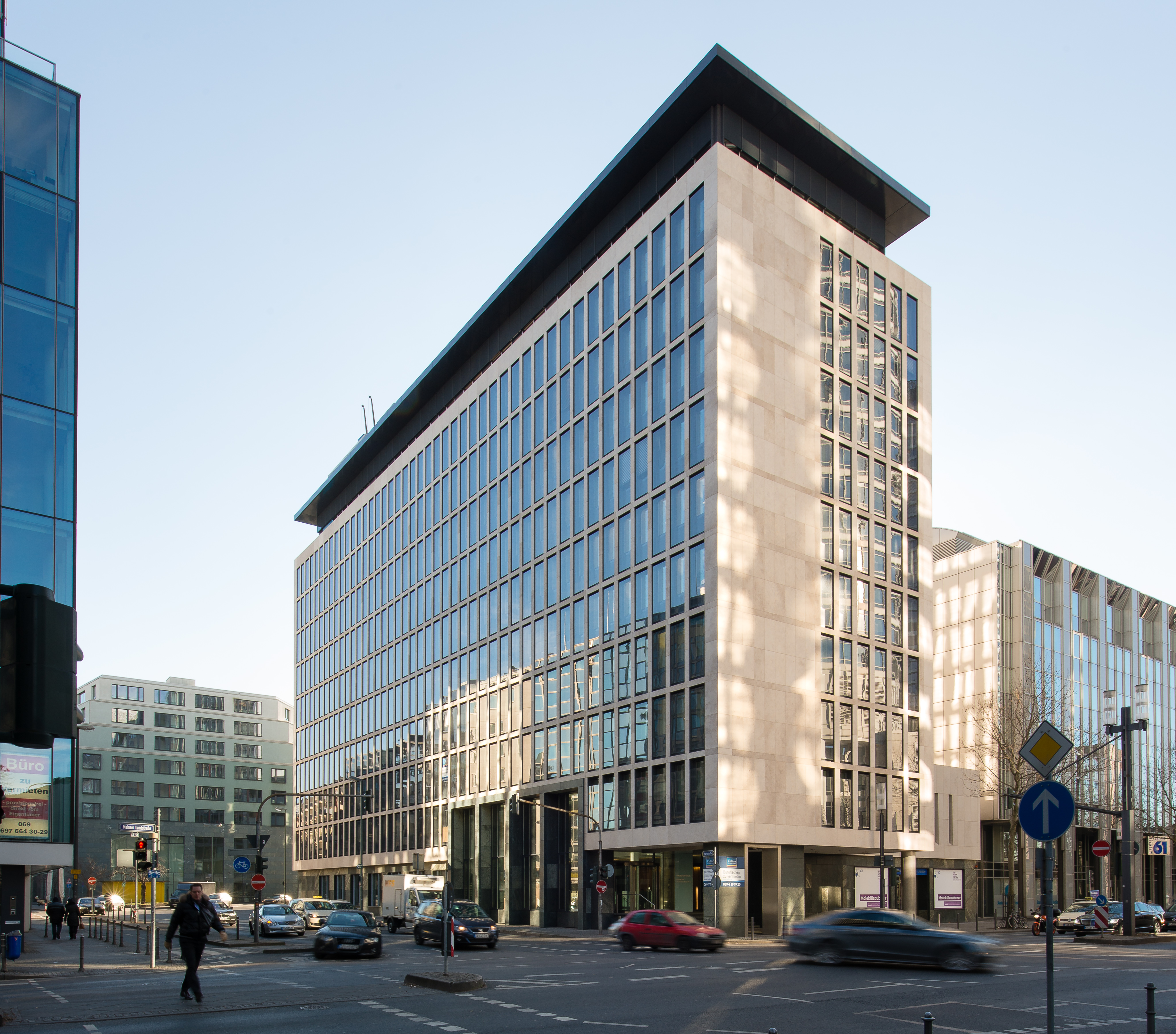 Frankfurt am Main, Mainzer Landstraße 55, Site of the German Chemical Industry Association (VCI)